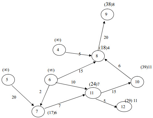 Dijkstra's algorithm parallel on processcer 1